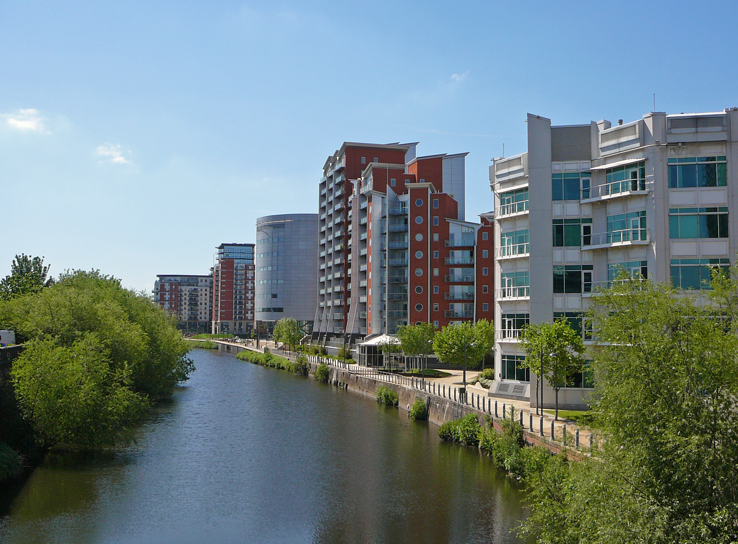 Flats on the waterfront of the River Aire at Leeds. Taken on the 30th of May 2009.